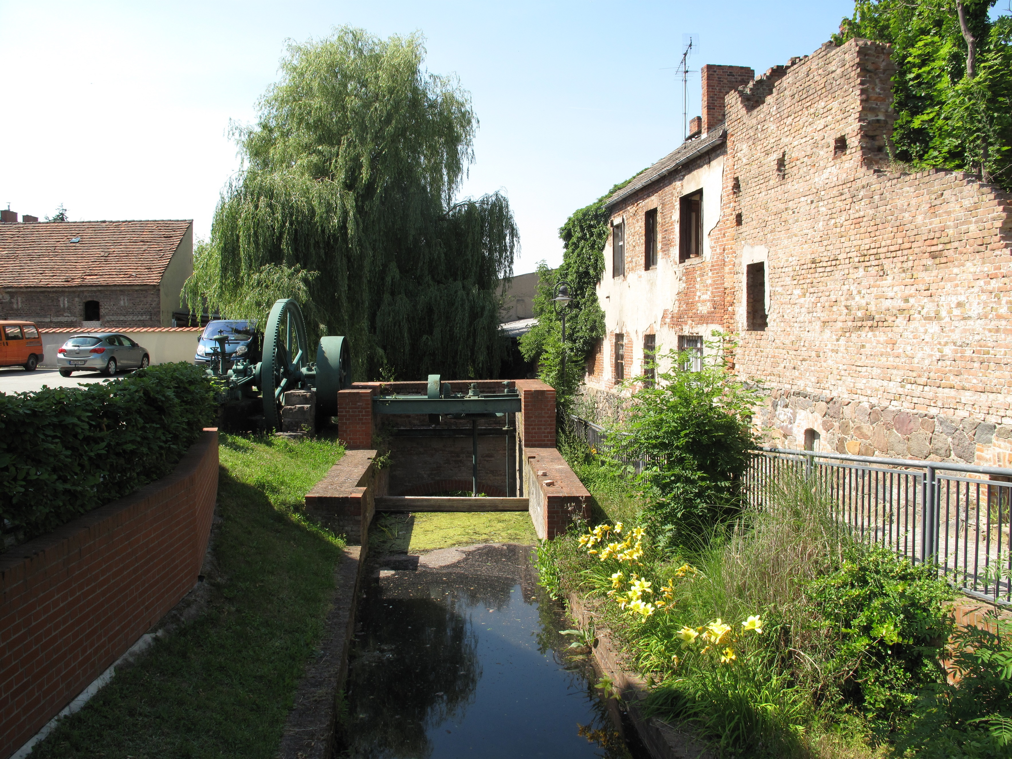 Mühlenfließ in Storkow. Storkow is a town in the District Oder-Spree, Brandenburg, Germany.